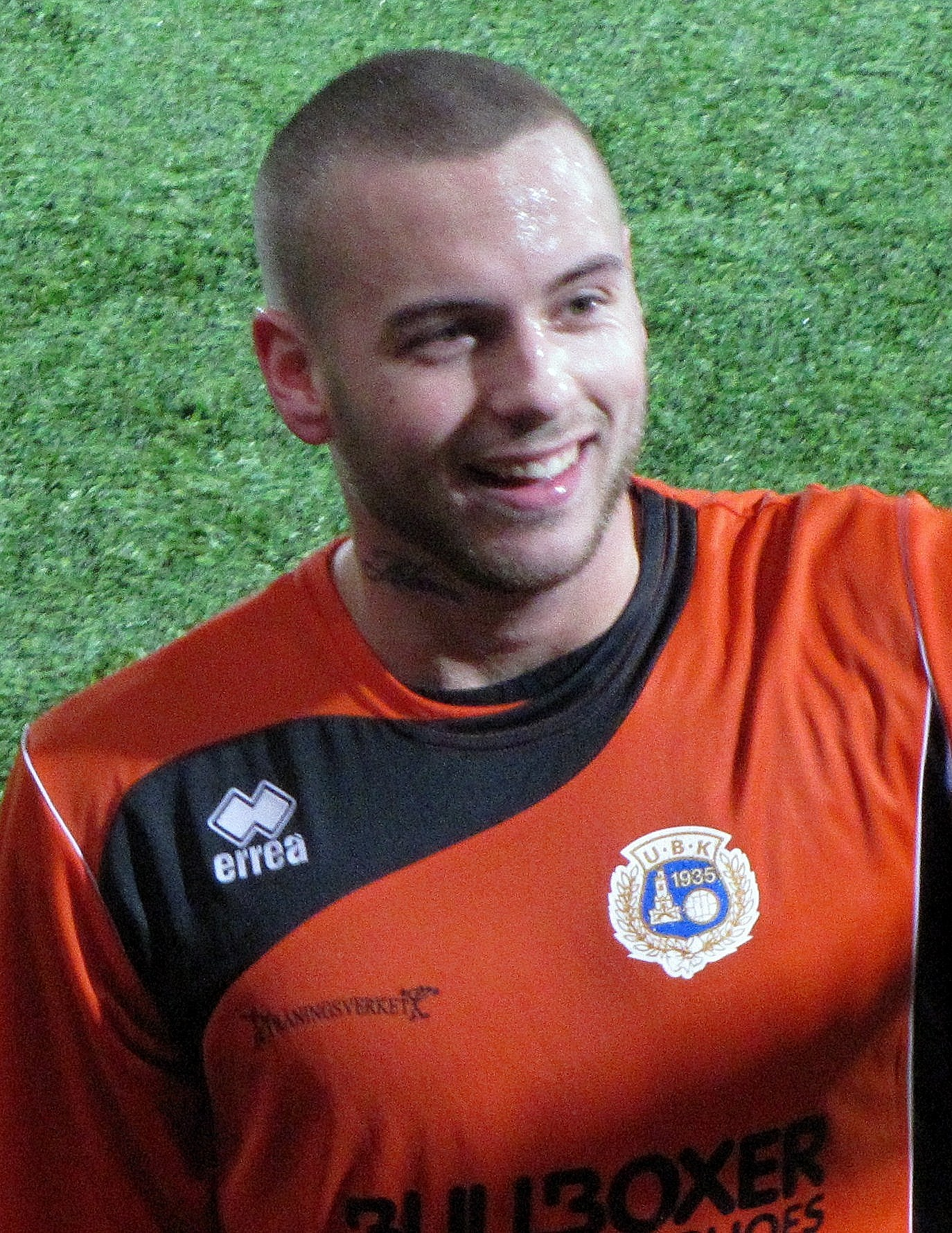 Soccer player Anton Hysén in Utsiktens BK after a game at Valhalla IP in Gothenburg, Sweden.